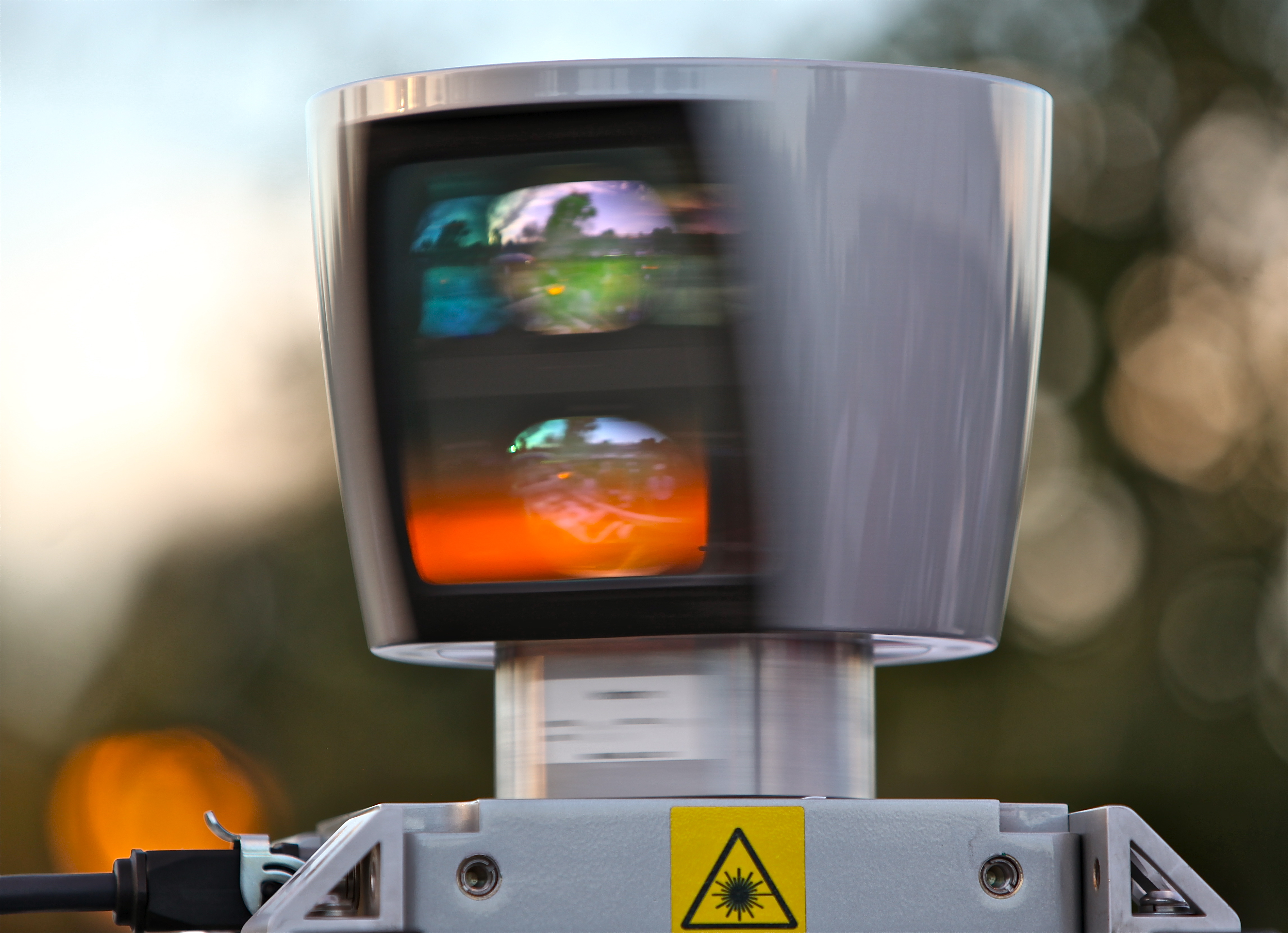 Eye-catching techno-bling on the roof of the autonomous VW Junior 2. $75K, with 64 laser beams, spinning like a whirling dervish, capturing a 3D map of the world and its inhabitants. This was a lucky catch, as it is spinning around 10 times/second, collecting 1.3 million 3D datapoints/second. Here is a Radiohead music video made with it. And technical details .